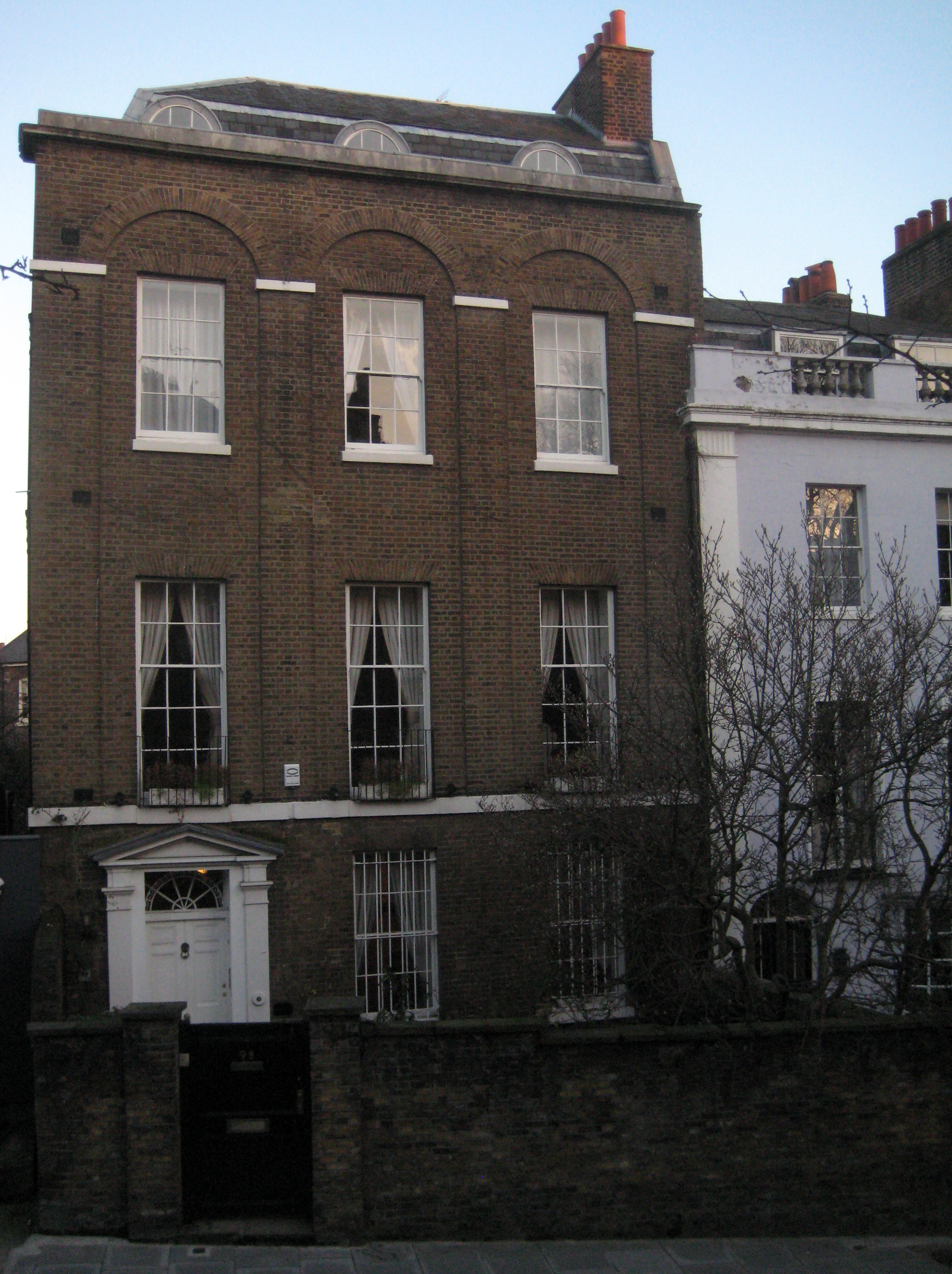 Guyon House on Heath Street, Hampstead, London NW3. In 1900 the house was owned by William Boulting who lent one of its large rooms to the Purcell Operatic Society for rehearsals of their first production, Purcell's Dido and Aeneas, directed by Edward Gordon Craig and conducted by Martin Shaw.